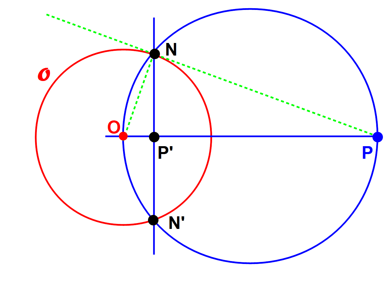 Labelled diagram indicating how to construct the inverse of a point with respect to a circle